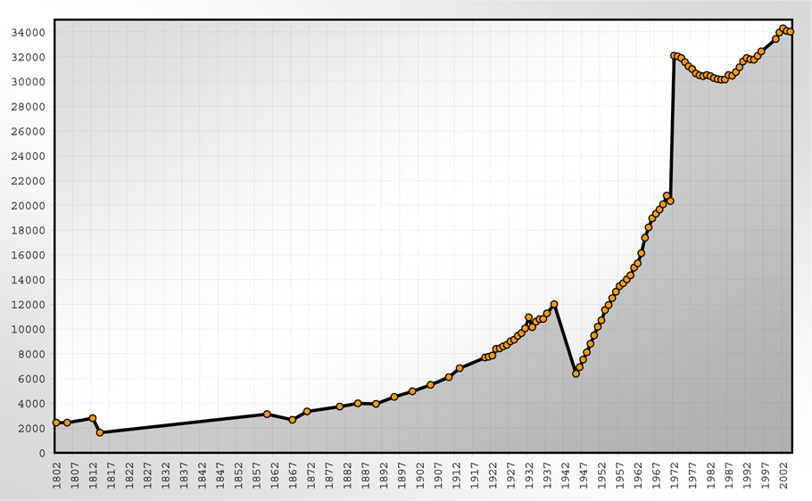 This image shows the population statistics of Jülich (Germany) since the year 1800.